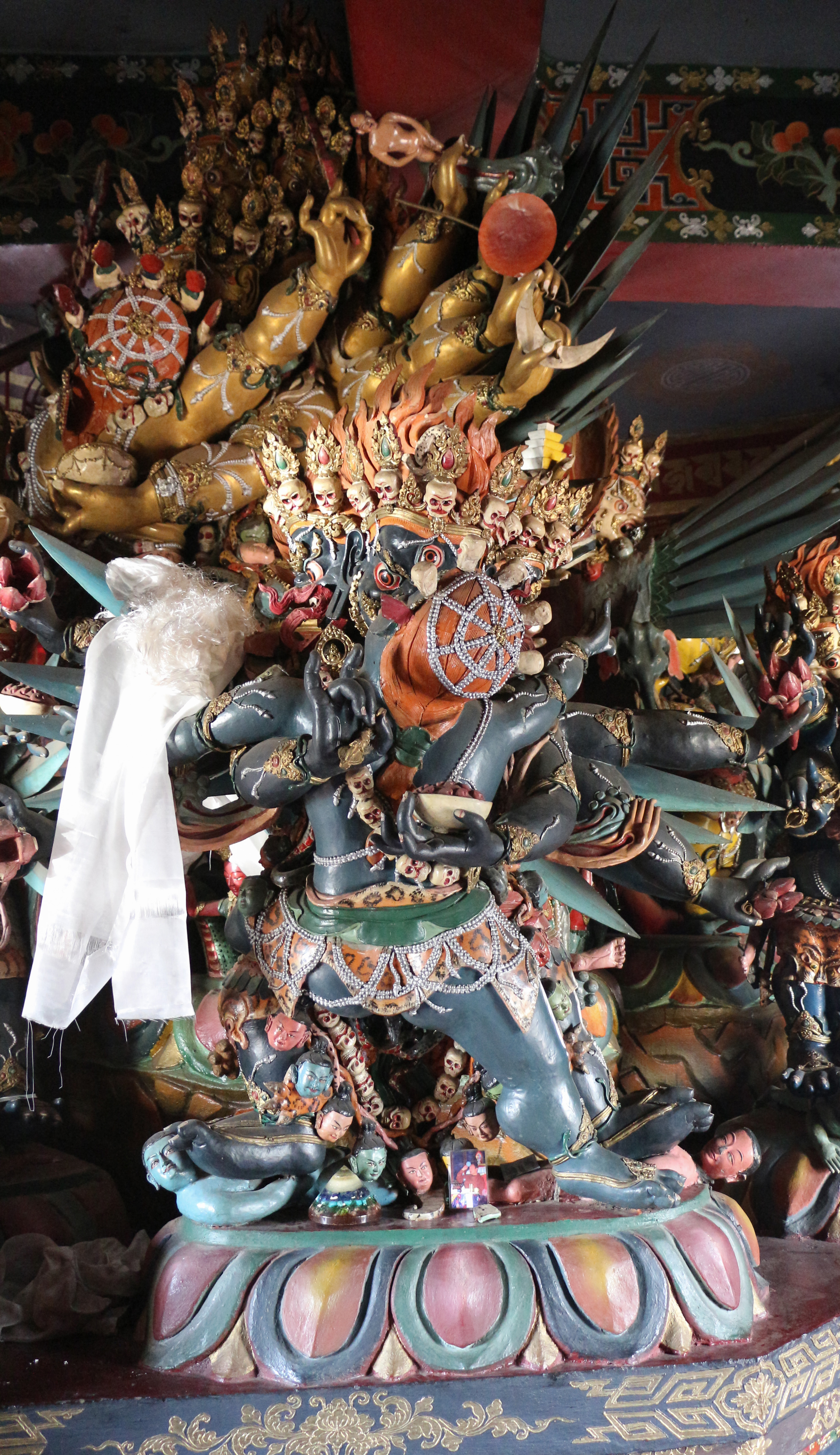 Sculpture inside the National Memorial Chorten, Thimphu, Bhutan